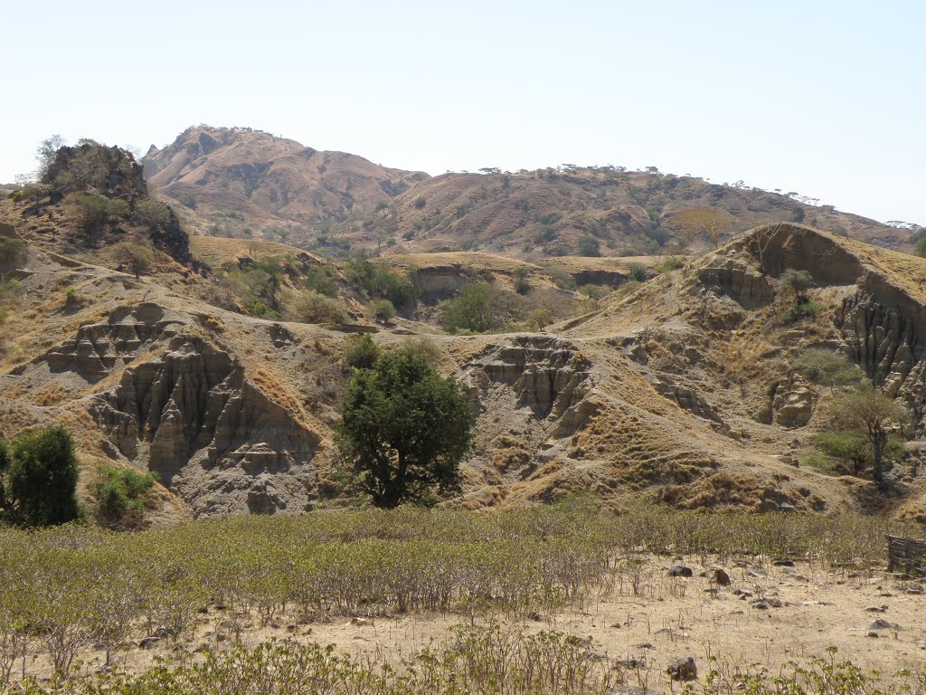 Laleia badlands - heavily weathered clay landscapes in rainshadow region of Laleia